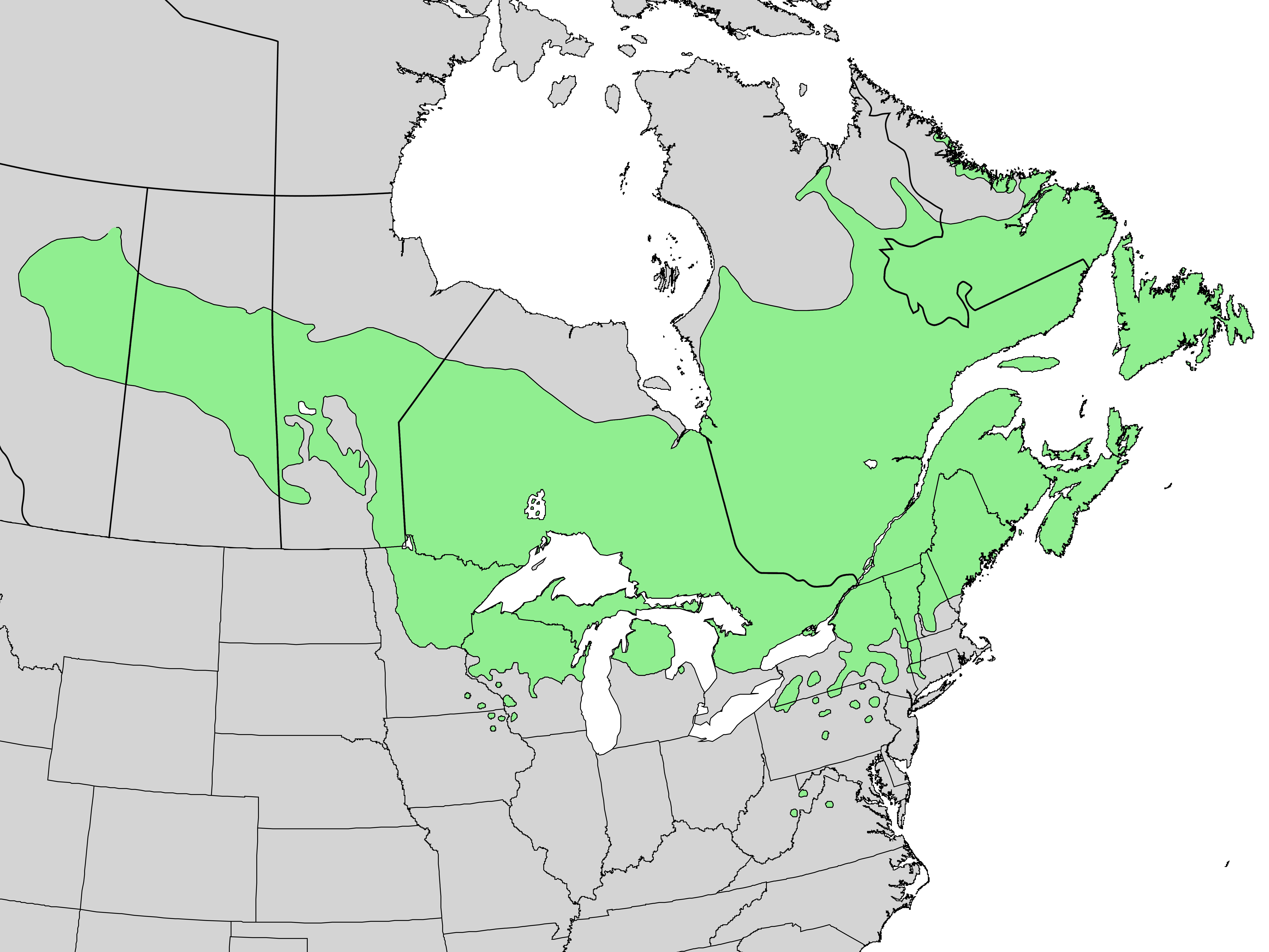 Distribution map for Abies balsamea (L.) Mill. - balsam fir